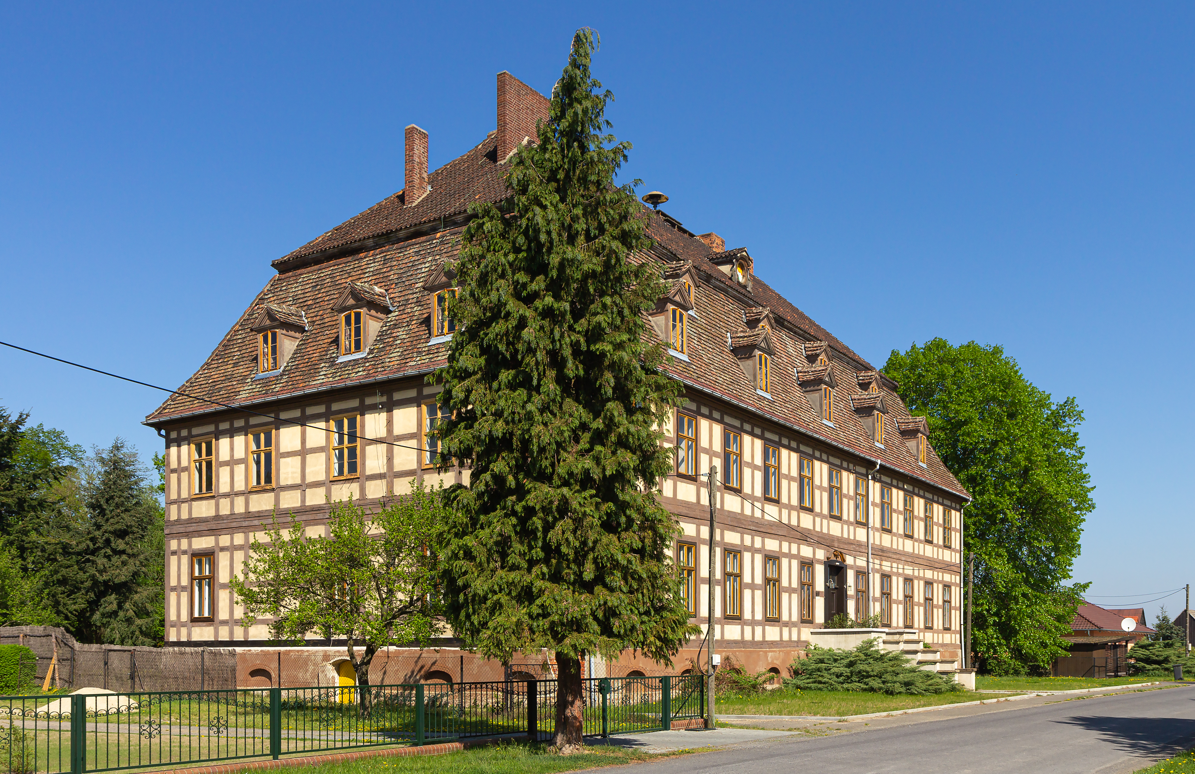 Manor house Groß Jehser, Calau, Brandenburg, Germany